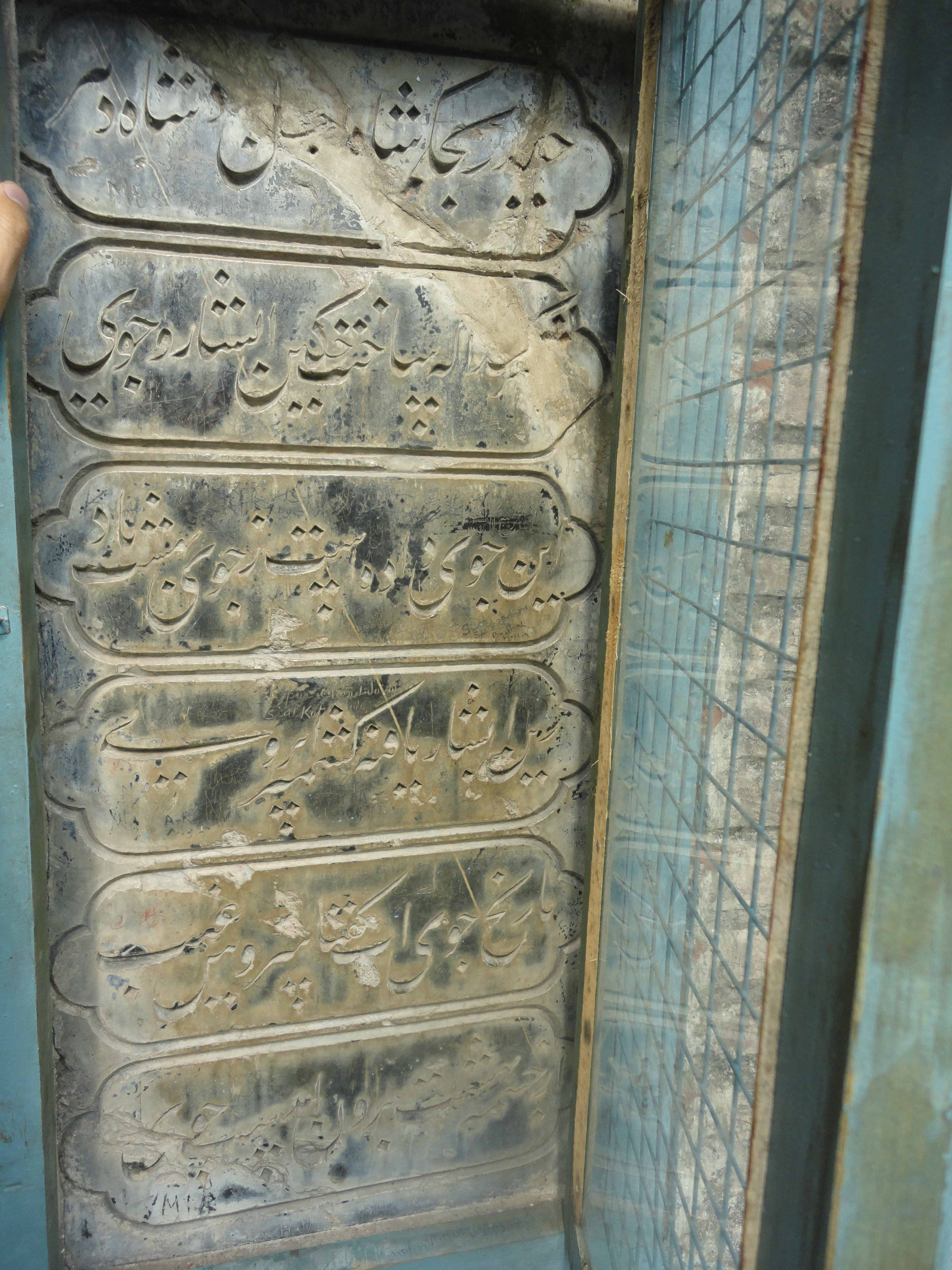 This picture shows stone slab built into the western wall of Vernag spring.